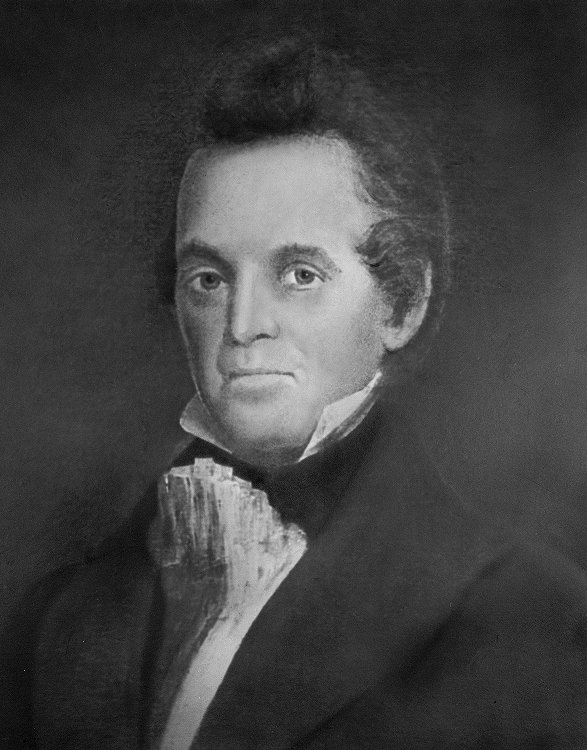 Portrait of former Mayor of Pittsburgh John M. Snowden